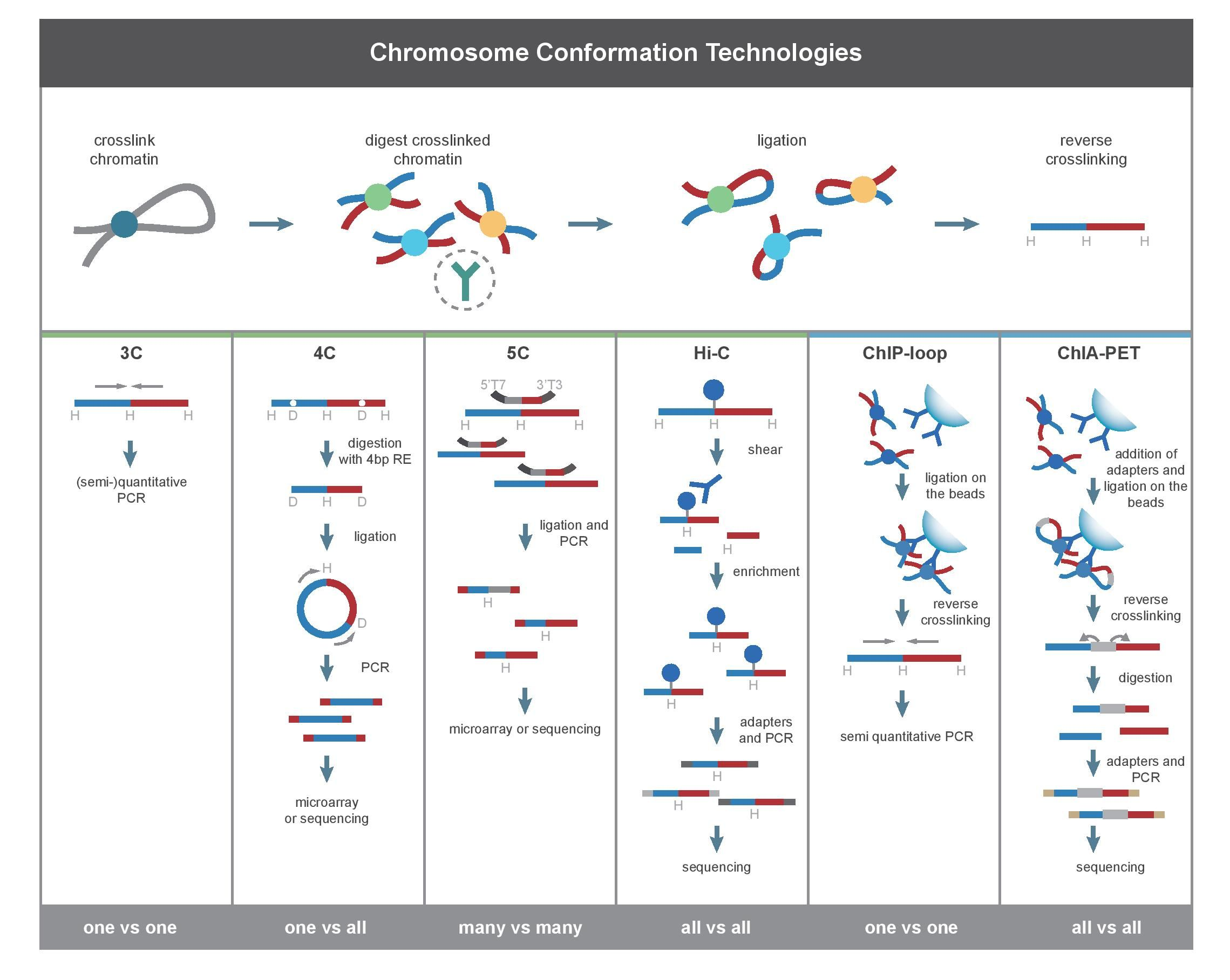 Comparison among 3C and its derived methods.